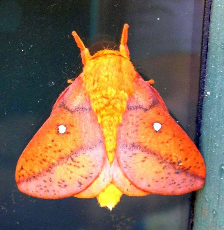 This is an adult anisota senatoria moth.